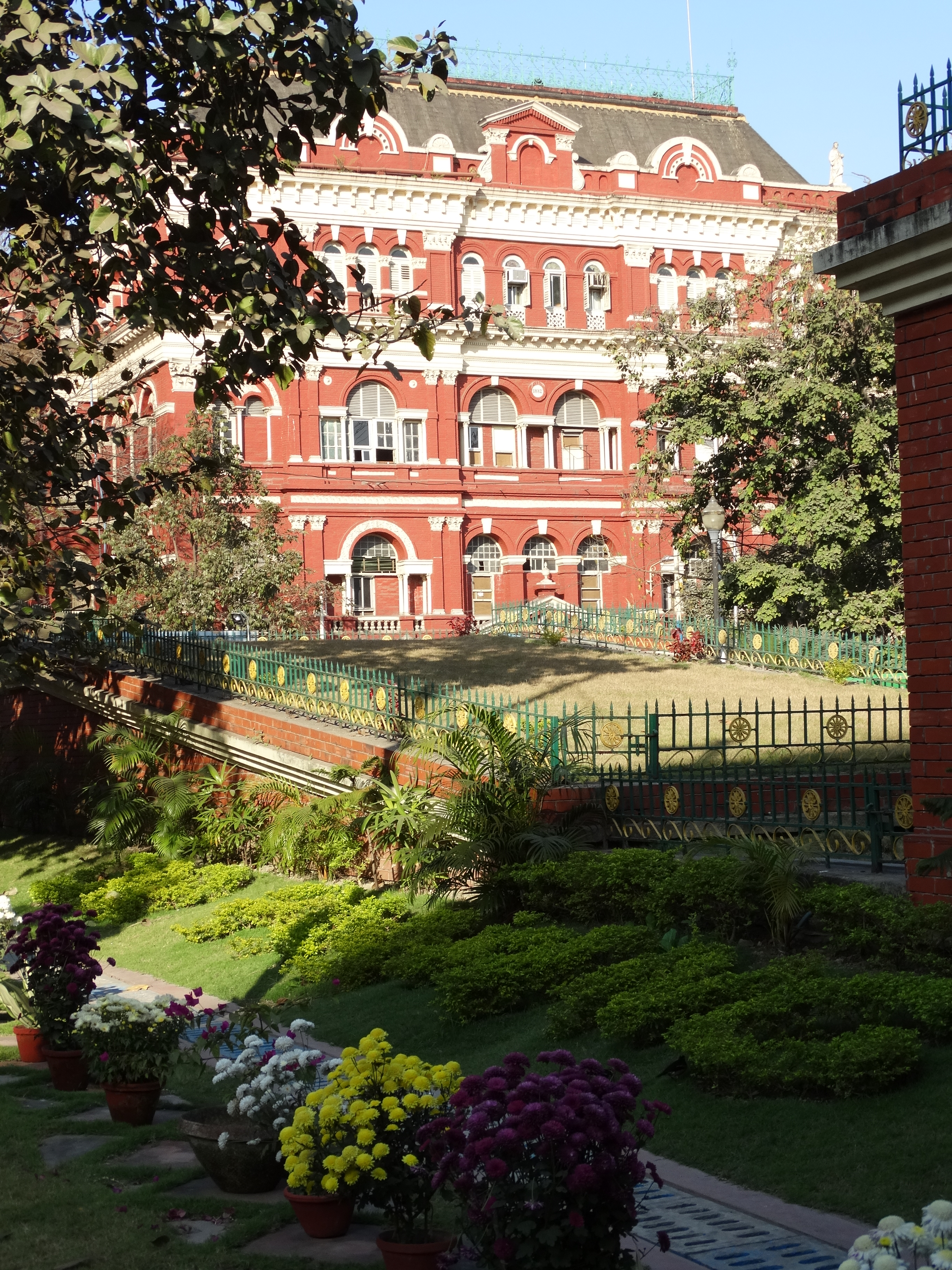 Garden with Writers Building at Rear - Central Kolkata - India.